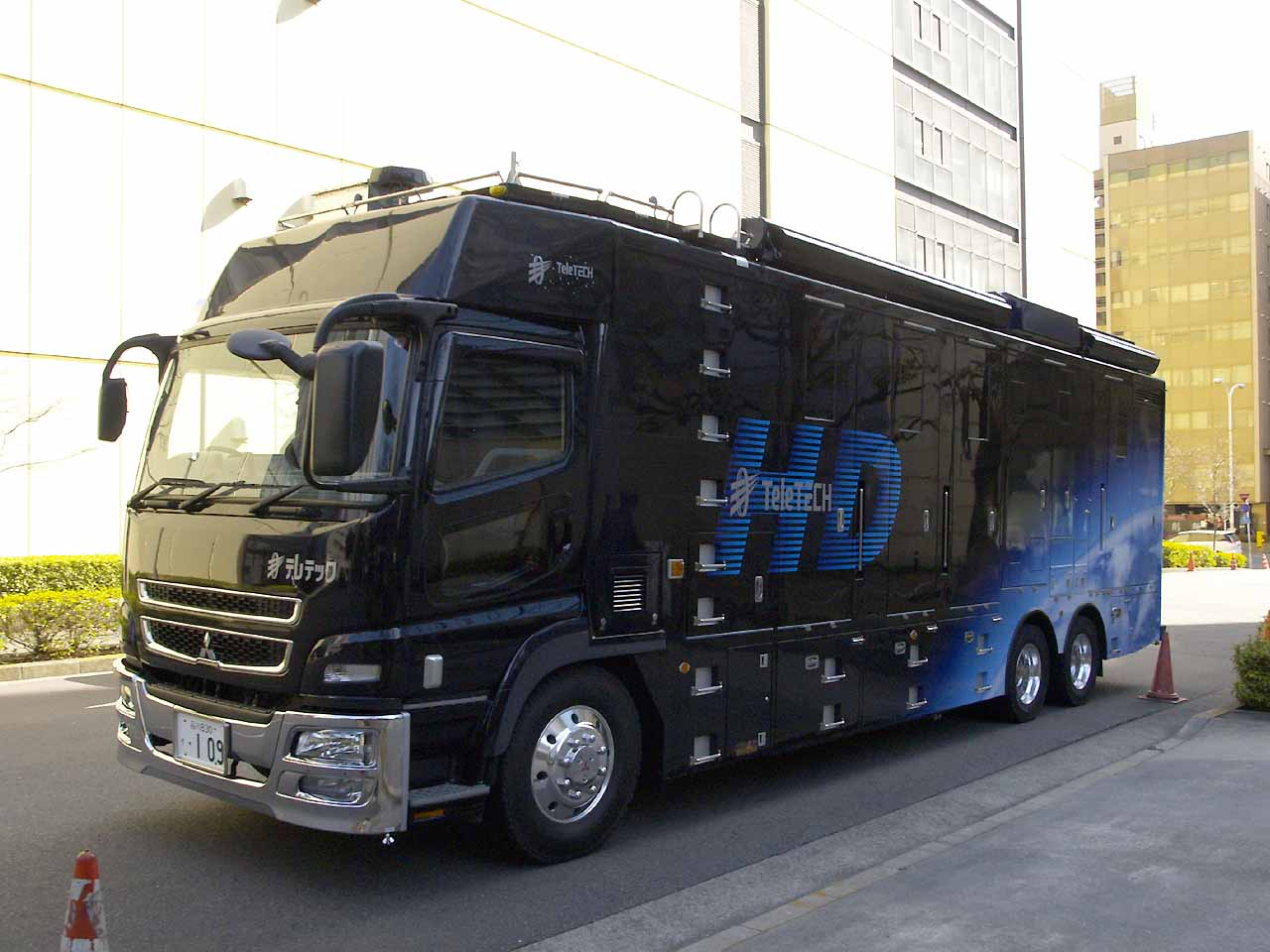 TeleTECH 4th HD outside broadcasting truck. Base: Mitsubishi Fuso Super Great FU Customize: Keisei Motors License plate: TKS830 SU-109 Place: neighbouor of Tokyo Dome, Bunkyo ward, Tokyo Japan